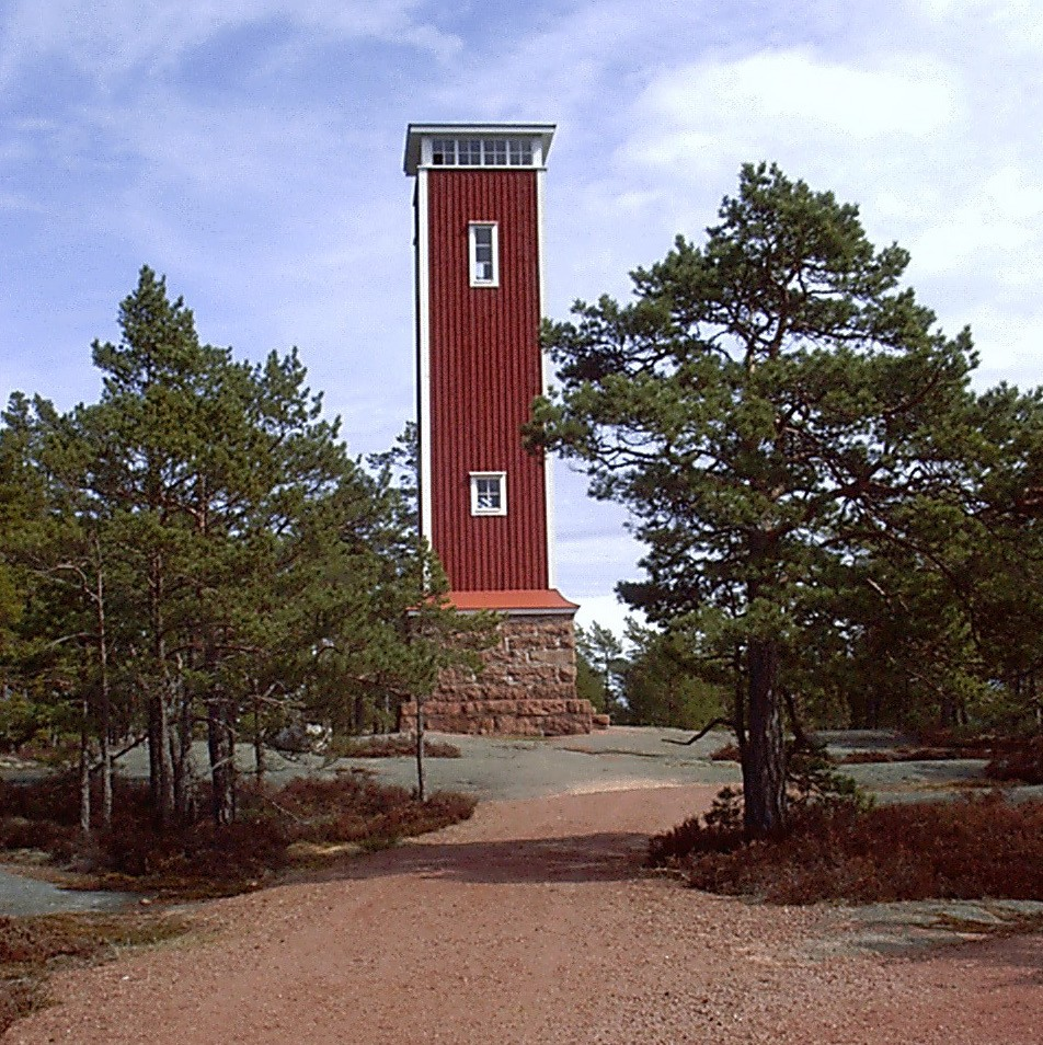 The lookout tower in Getabergen, Geta, Finland